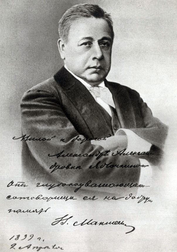 Russian actor Vladimir Maksheyev in 1899